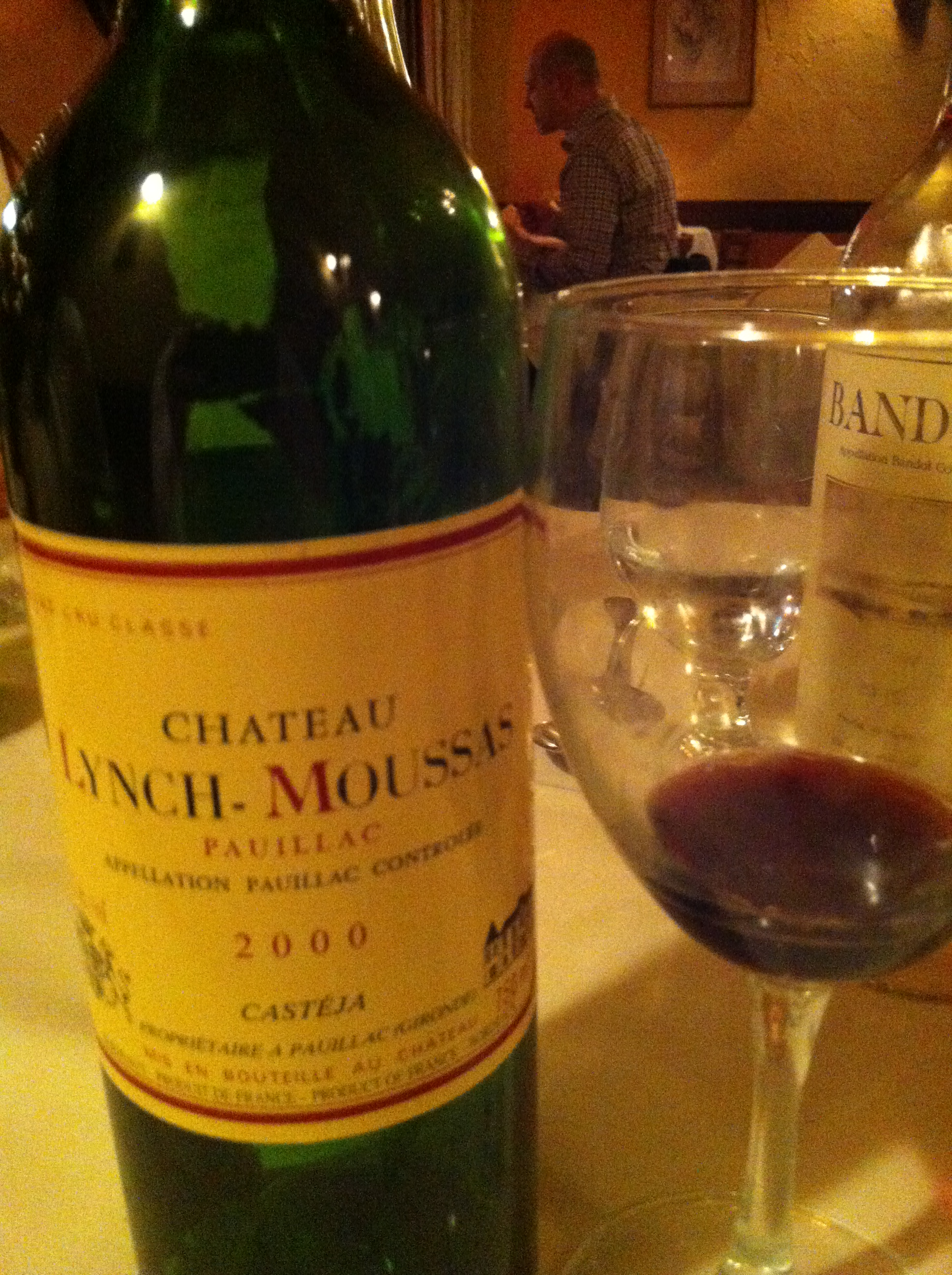 Bordeaux wine from the French wine region of Pauillac. Classified 5th growth